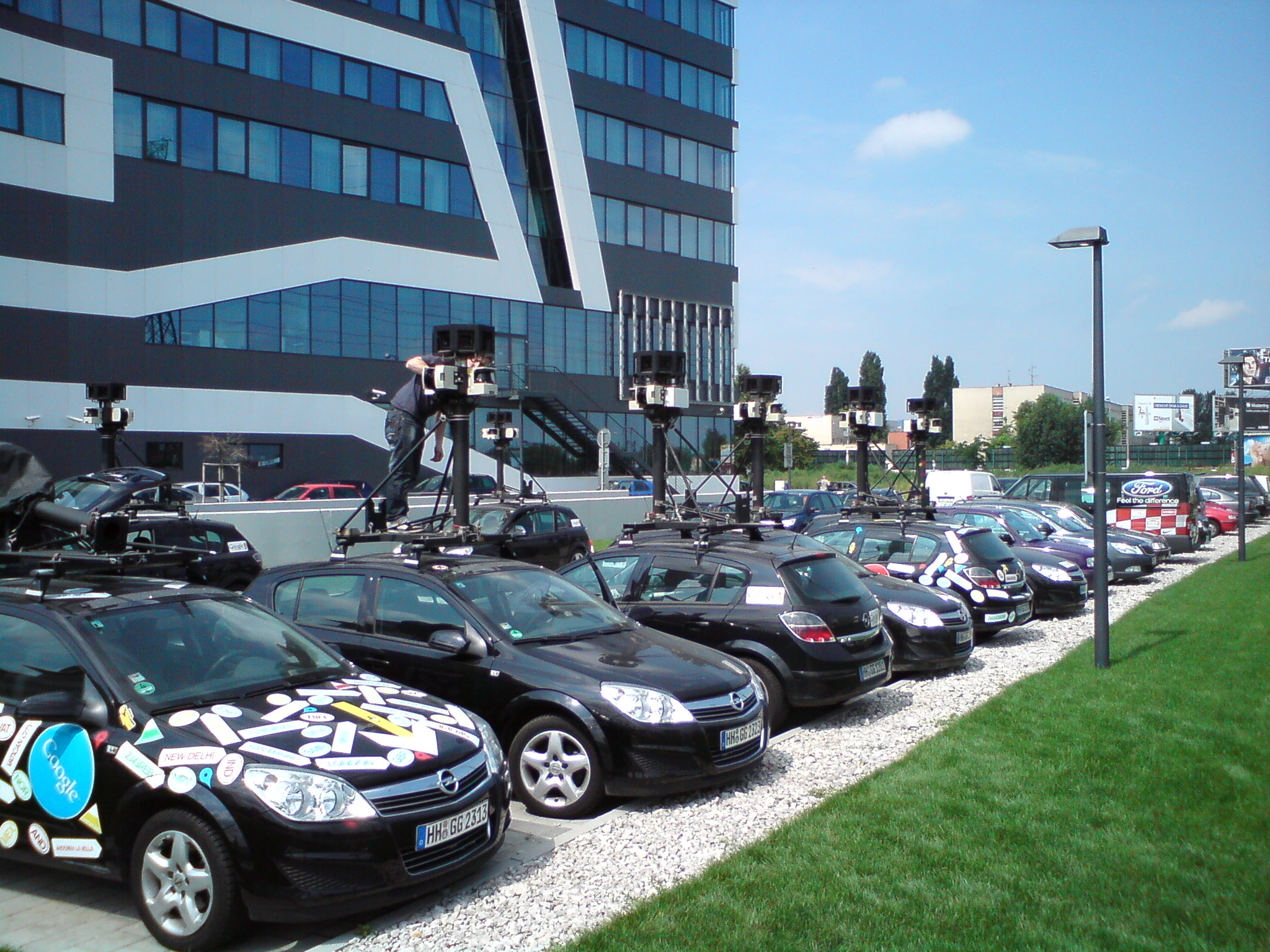 Google Streetview cars parking in front of Gate-One hotel in Bratislava, Slovakia